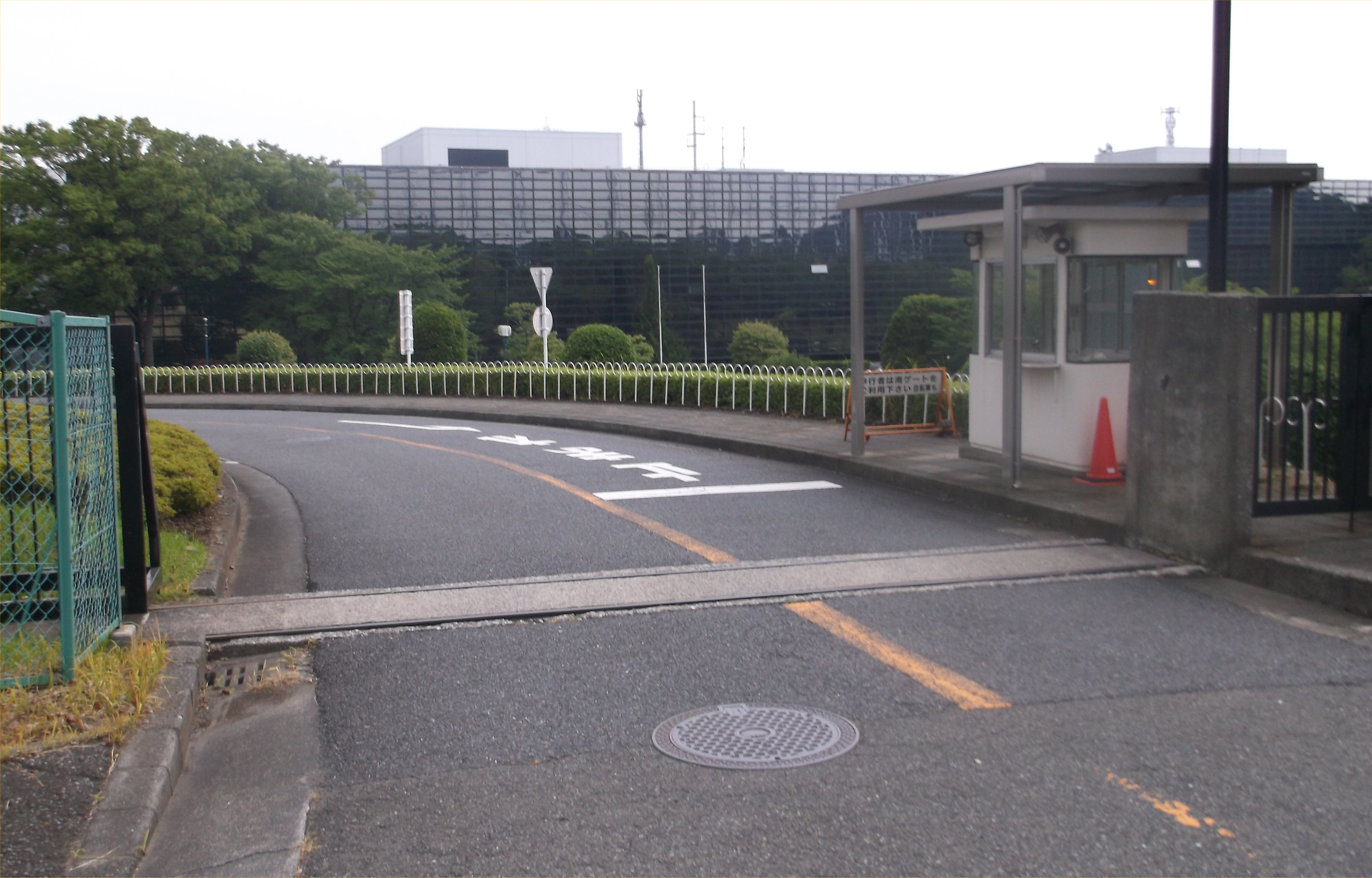 A photo of an entrance of Midoriyama Studio City(also TBS Midoriyama Studio)Midoriyama,Aoba-ku,Yokohama city,Kanagawa pref.,Japan.